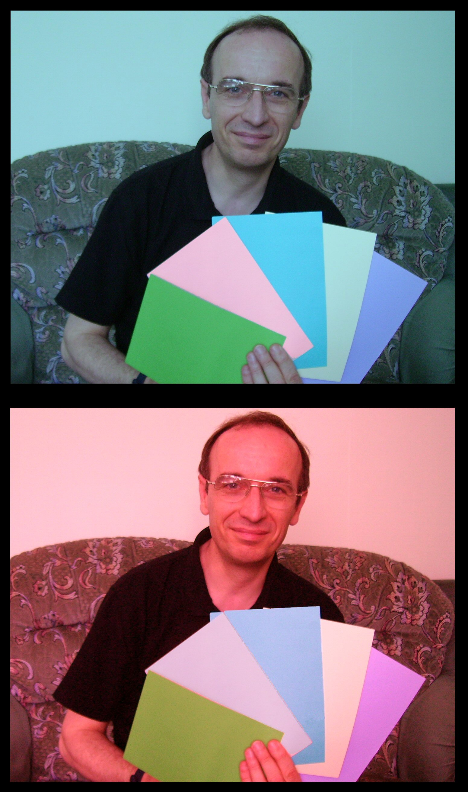 In this illusion, the second card from the left seems to be a stronger shade of pink in the top picture. In fact they are the same colour, but the brain changes its assumption about colour due to the colour cast of the surrounding photo. (This is a photo of the Author)